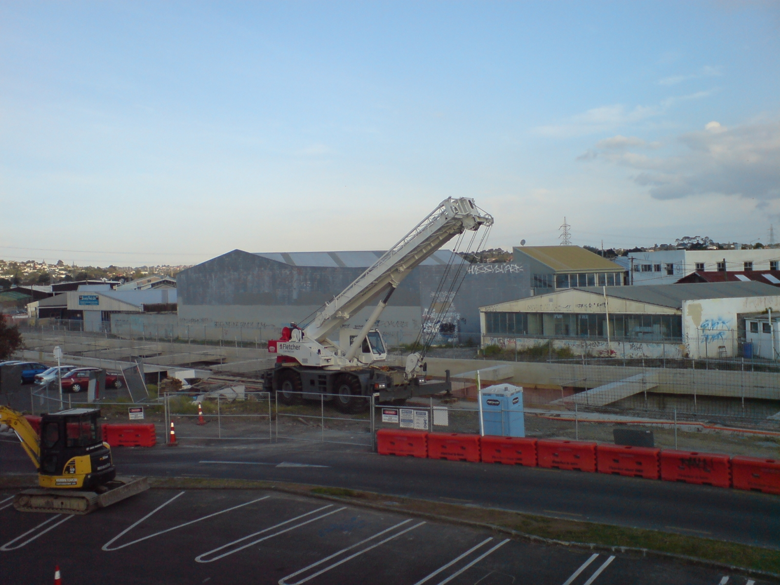 The New Lynn rail trench in Waitakere City, New Zealand. Looking from the car park deck of LynnMall south-eastwards.